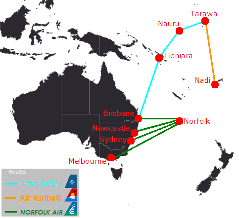 Map of the air routes operated by Our Airline